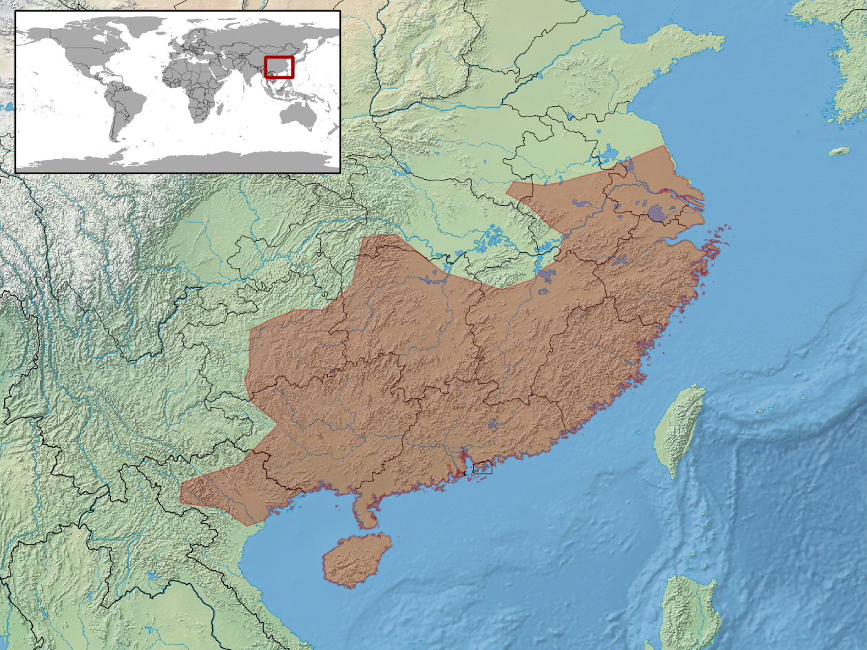 geographic distribution of Calamaria septentrionalis (Native: China (Anhui, Fujian, Guangdong, Guangxi, Guizhou, Hainan, Henan, Hubei, Hunan, Jiangsu, Jiangxi, Sichuan, Zhejiang); Hong Kong; Viet Nam)